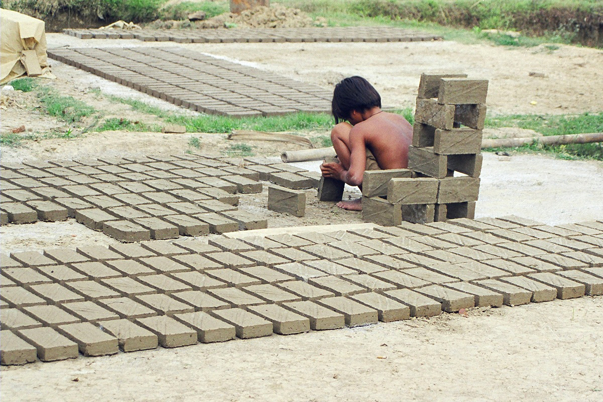 Brickmaker in Java